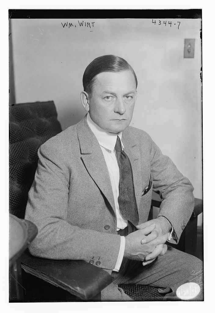 William Albert Wirt (1874-1938) in 1917